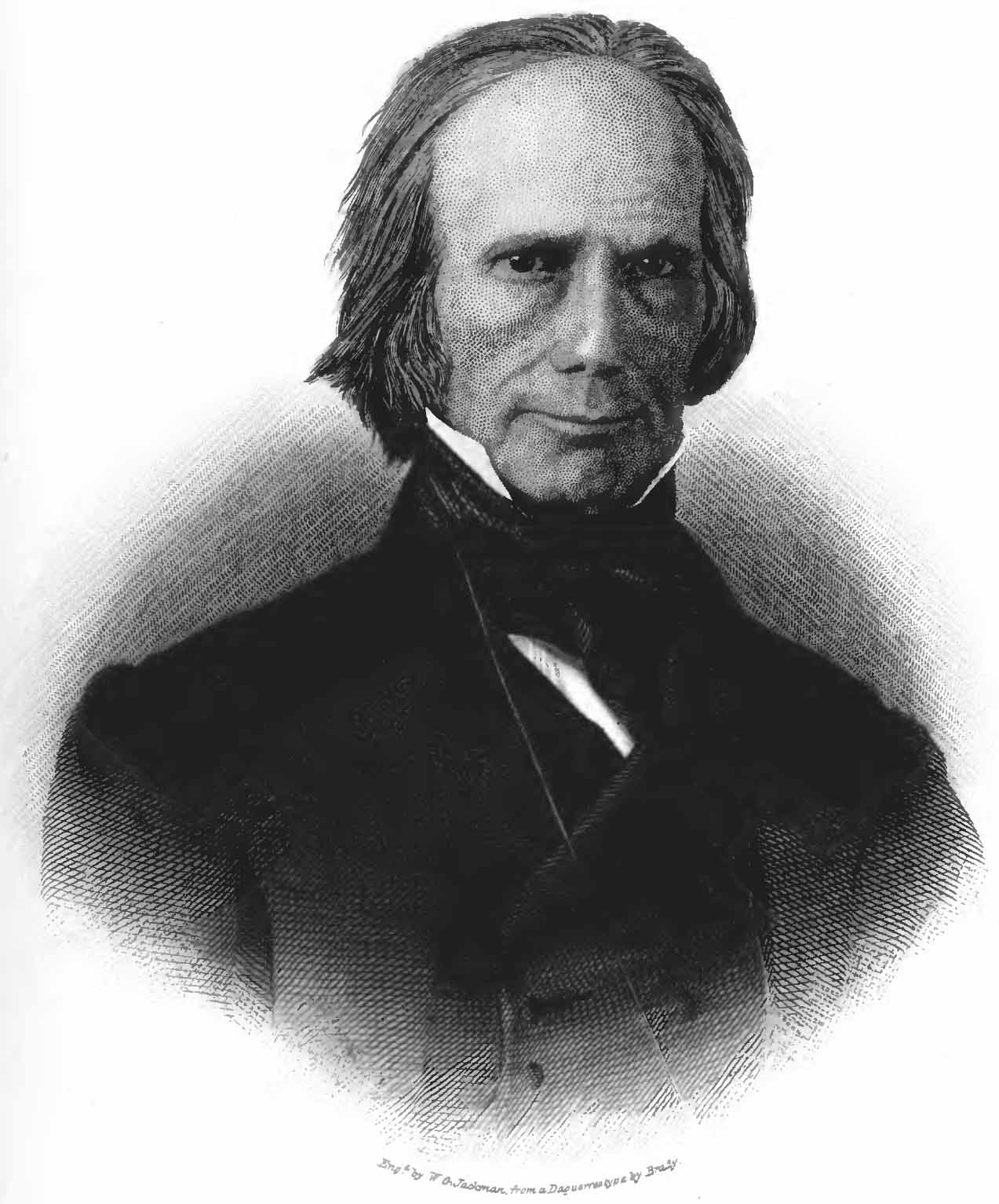 Bust black and white portrait engraving of Henry Clay based on a photograph.